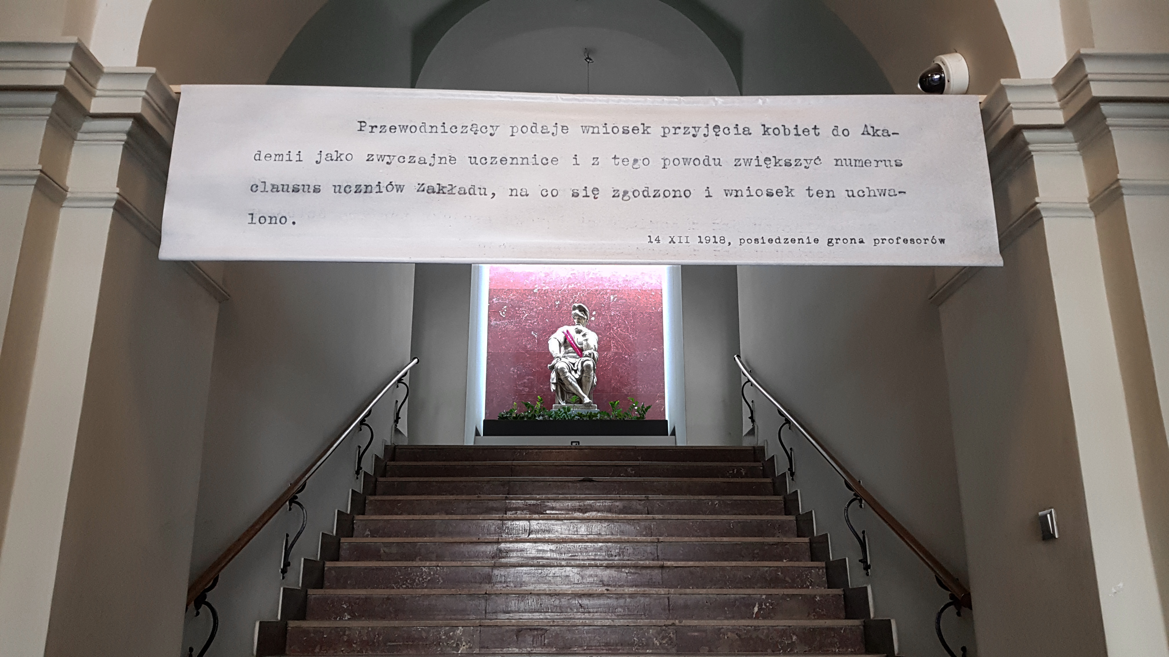 The banner with the official request from the 14th of December 1918 about formal acceptance of women to study at Academy of Fine Arts in Krakow.